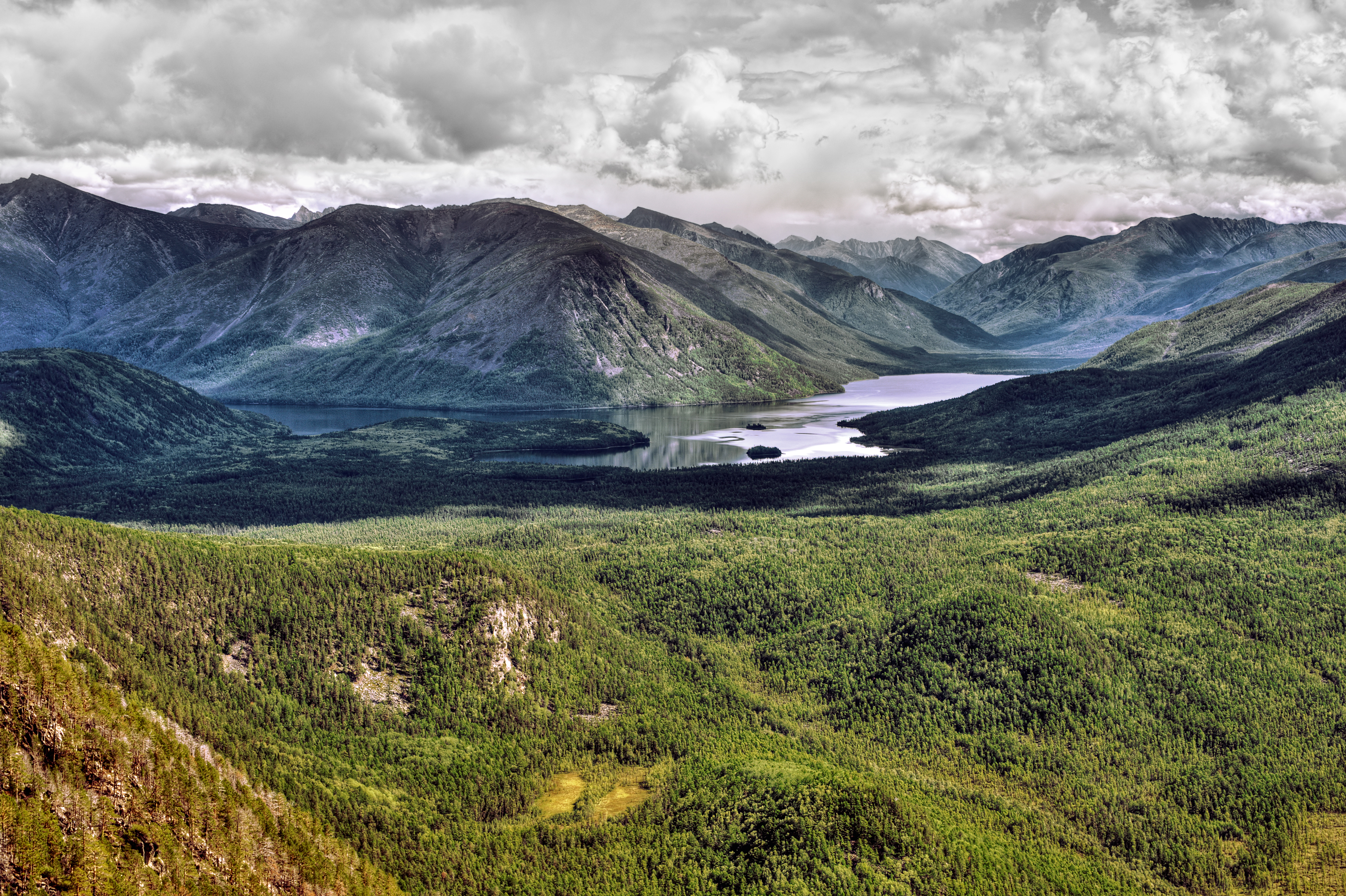 Lake Frolikha in Buryatia, Russia This image is related to the protected area of Russia number 0310095